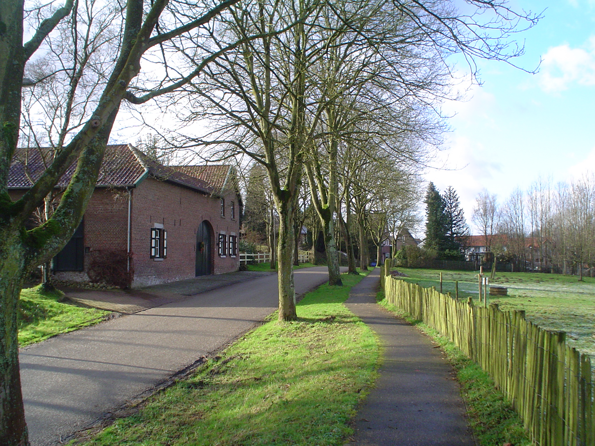 The Voorsterstraat in the hamlet Tervoorst, near Nuth